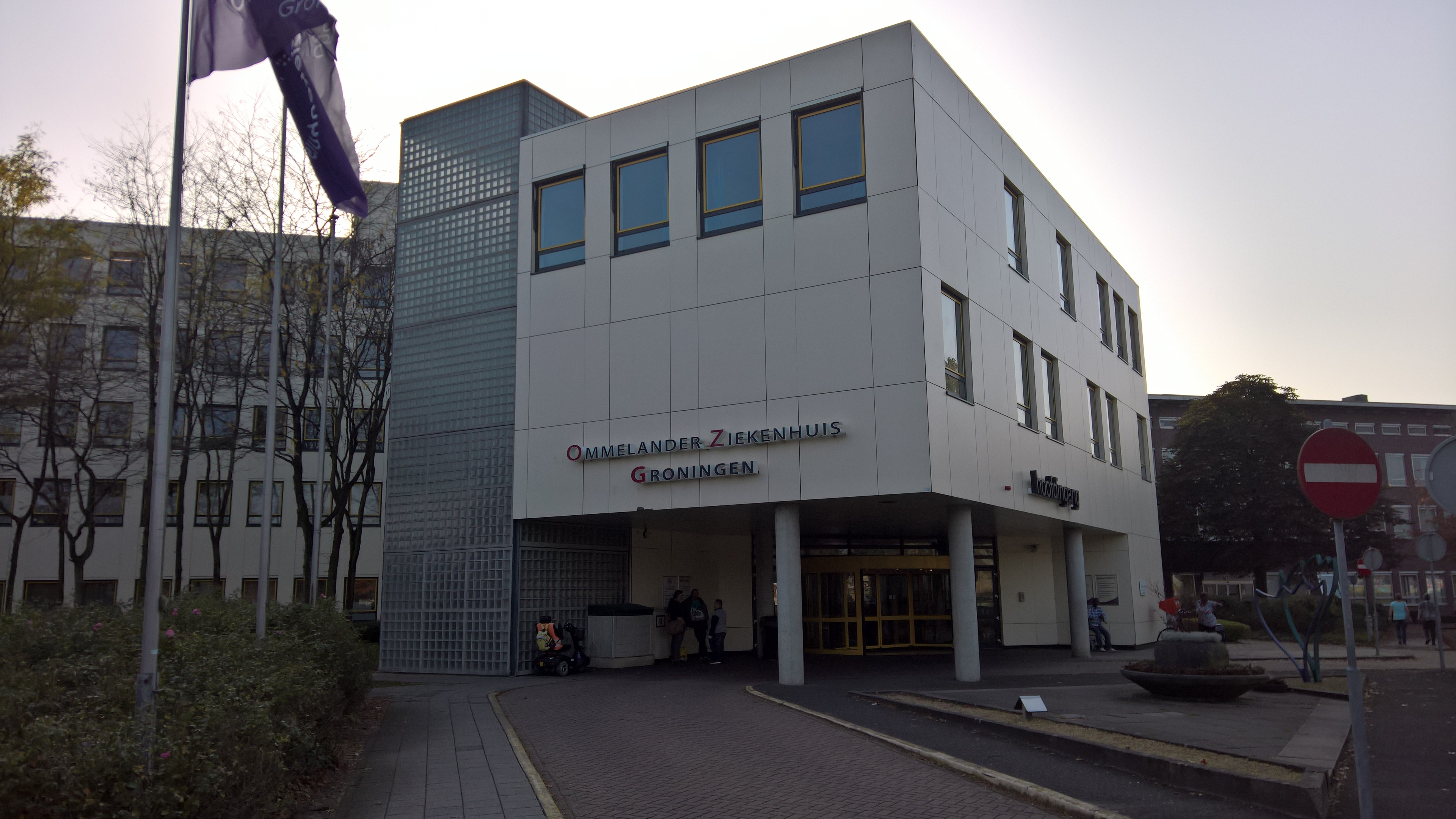 The local St. Lukas hospital in the city 🏙 of Winschoten, Groningen.